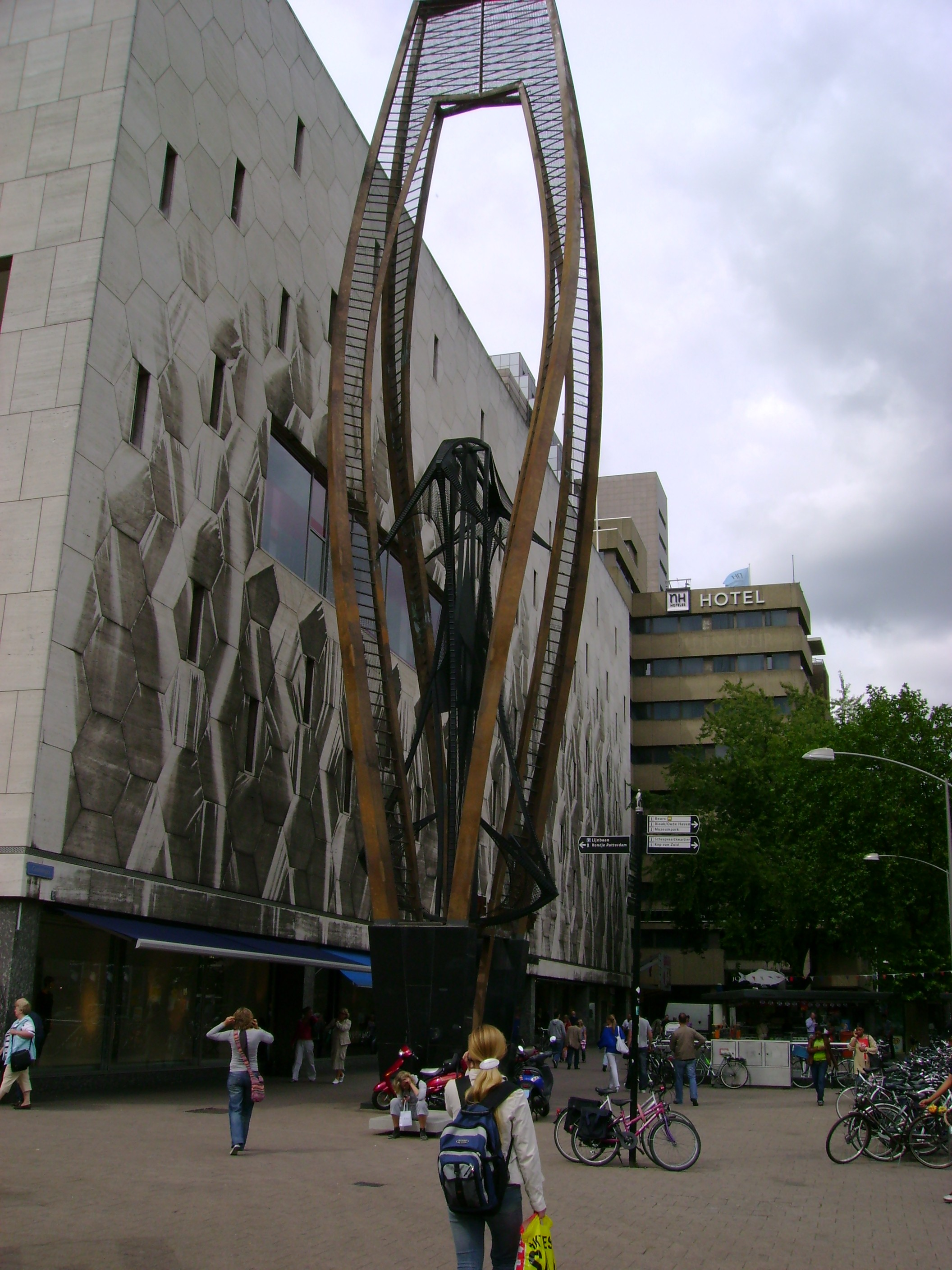 Constructivistic sculptuur Untitled (1957) by Naum Gabo (Russia) in Rotterdam/The Netherlands